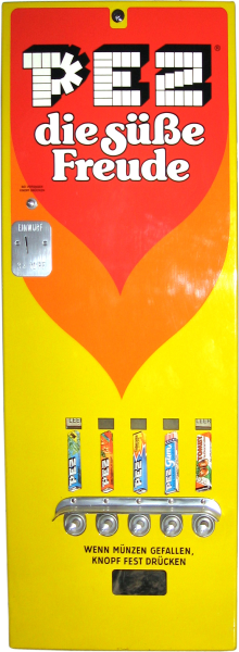 PEZ Vendor showing "PEZ die süße Freude" (PEZ the sweet joy) instead of a PEZ-girl, made by Theodor Braun, 5ways, operational in Germany, produced in Austria